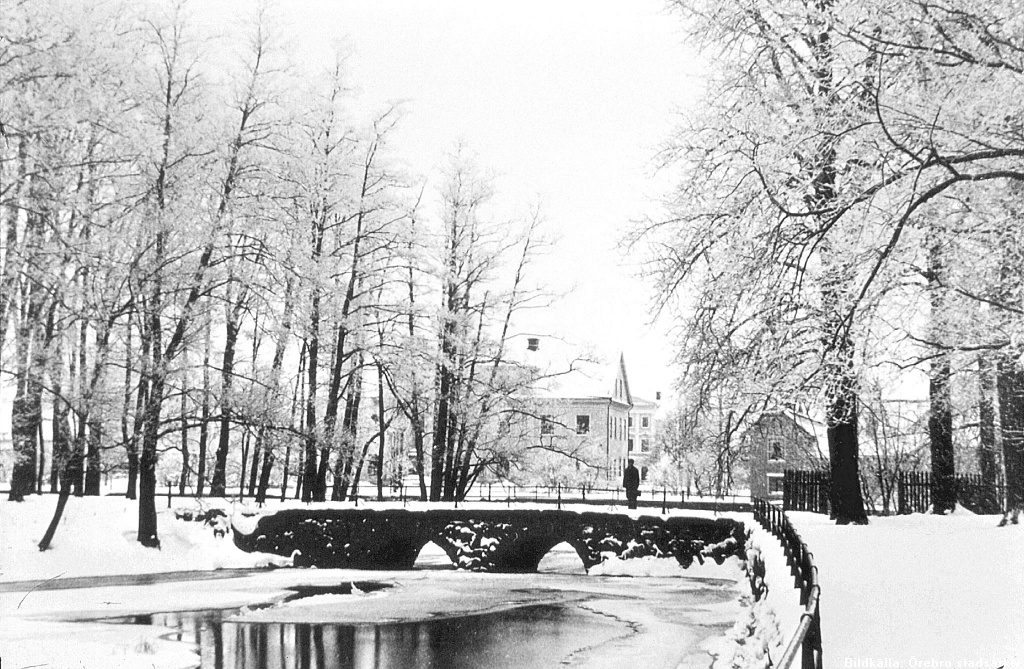 The old bridge in the Castle Park, Örebro, Sweden